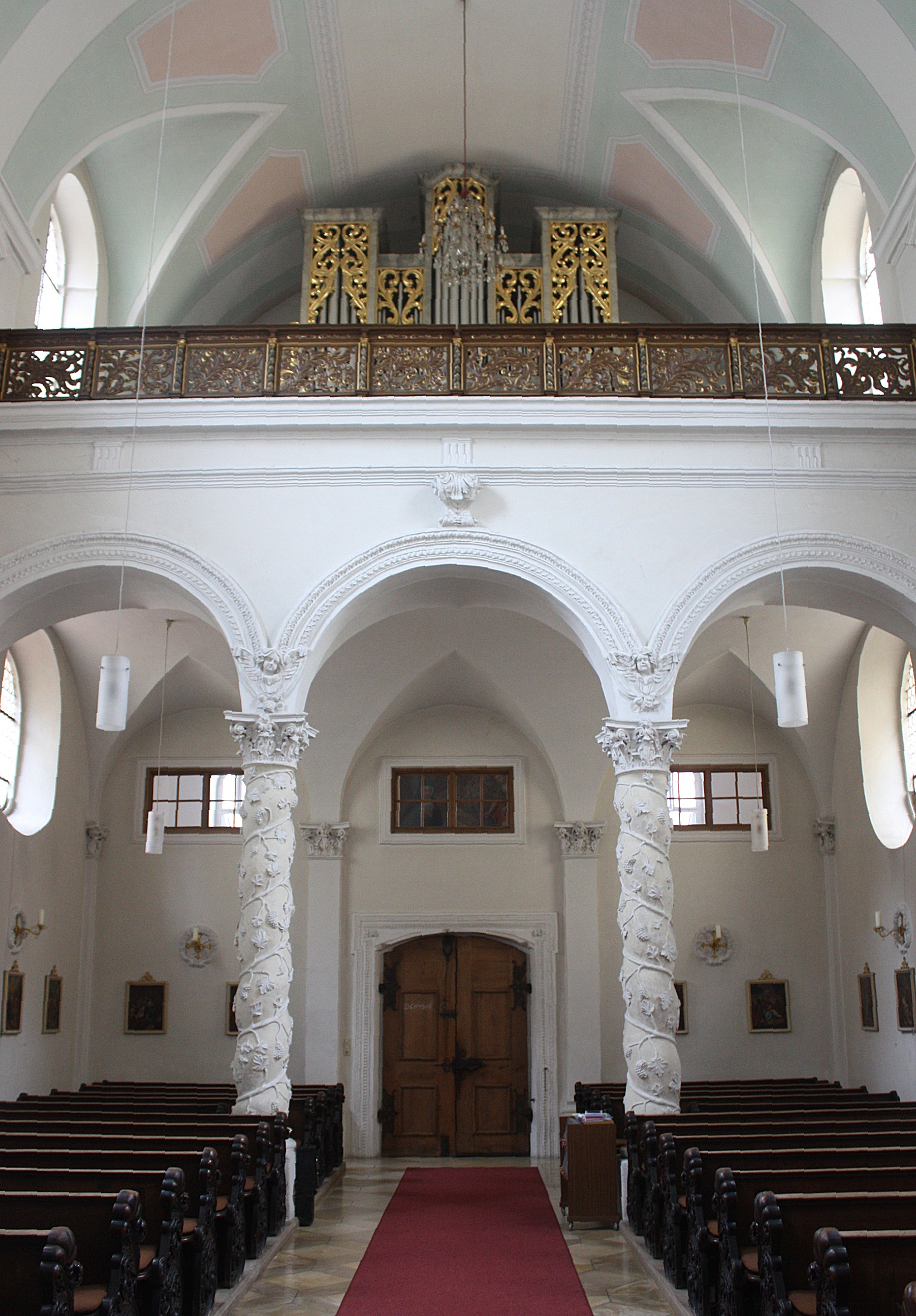 Landshut, the Ursuline church, view to the organ